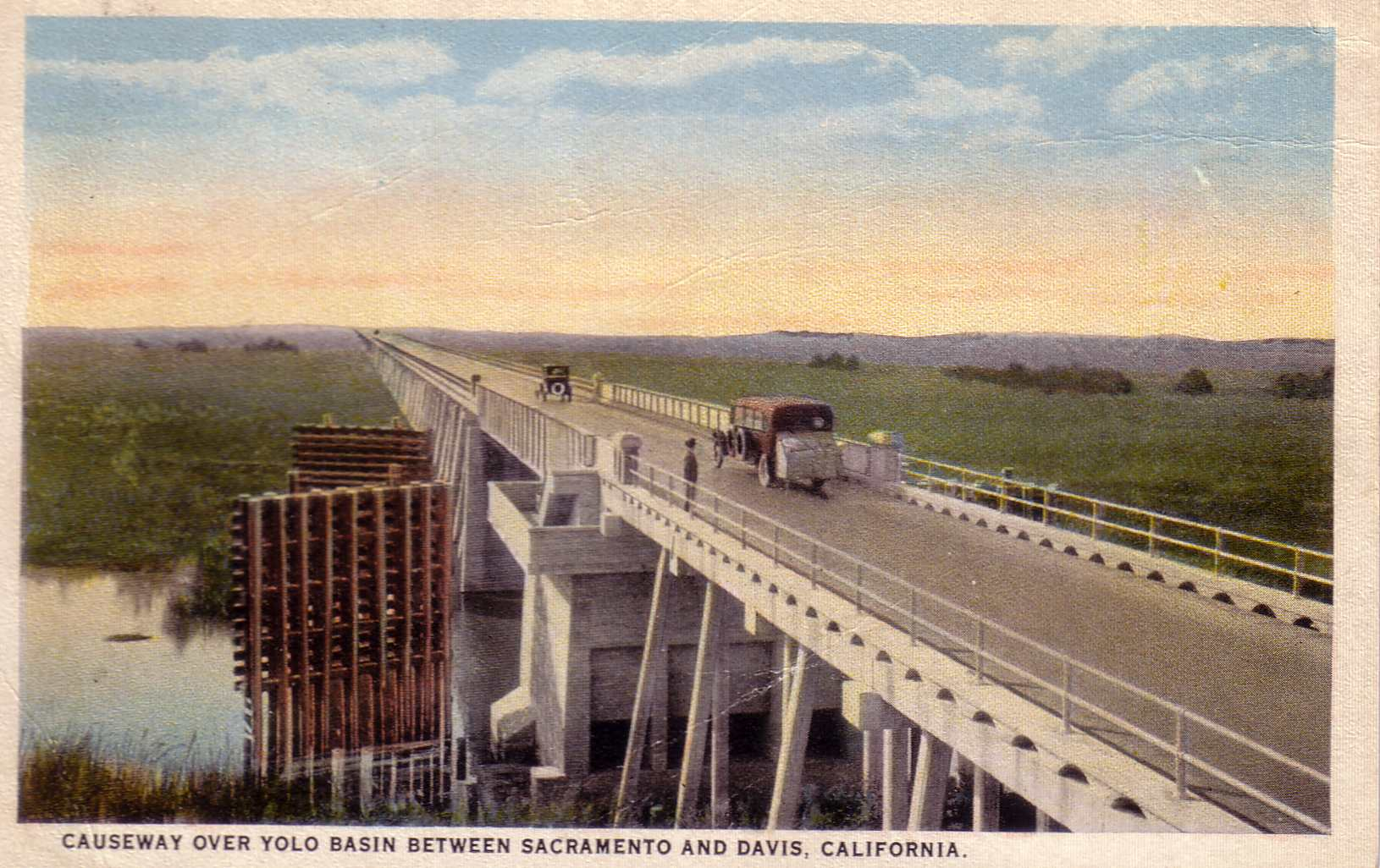 An artist's representation of the Yolo Causeway. View is from West Sacramento, CA looking towards Davis, CA. This image is the front of a postcard circa 1920, and in itself is thus out of copyright, but the Flickr user uploaded it with a CC license.